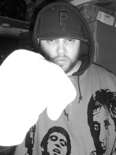 picture of necro wearing a scarface top